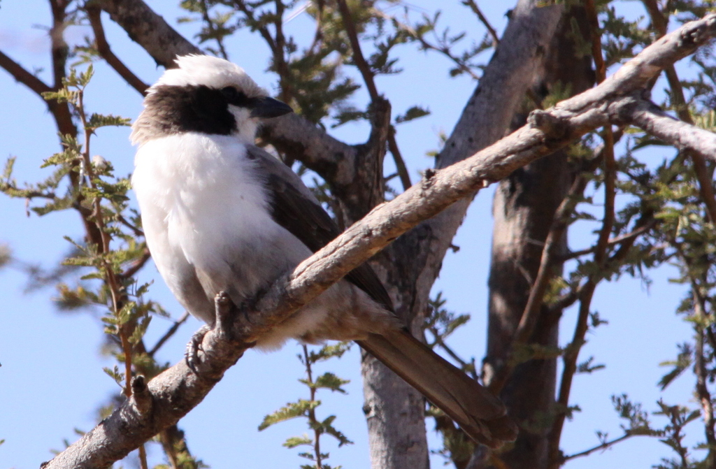 Southern White-crowned Shrike (Eurocephalus anguitimens) taken at the entrance to the Mapungubwe campsite